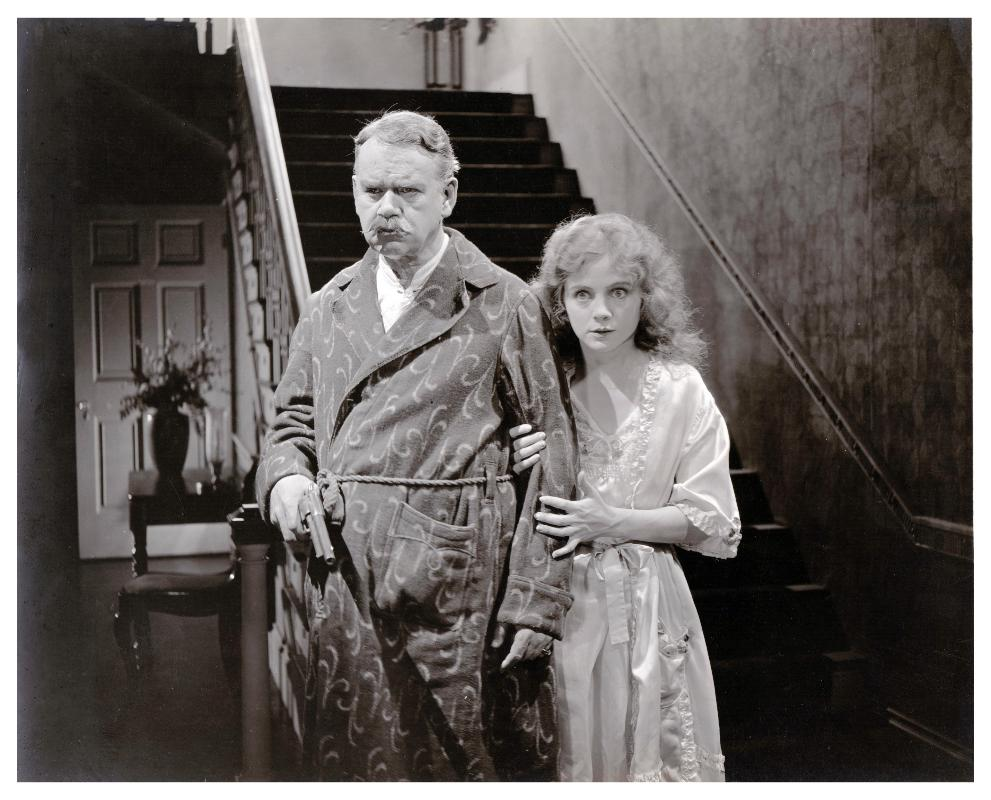 Hardee Kirkland and Ann Forrest in A Splendid Hazard (1920) - publicity still.